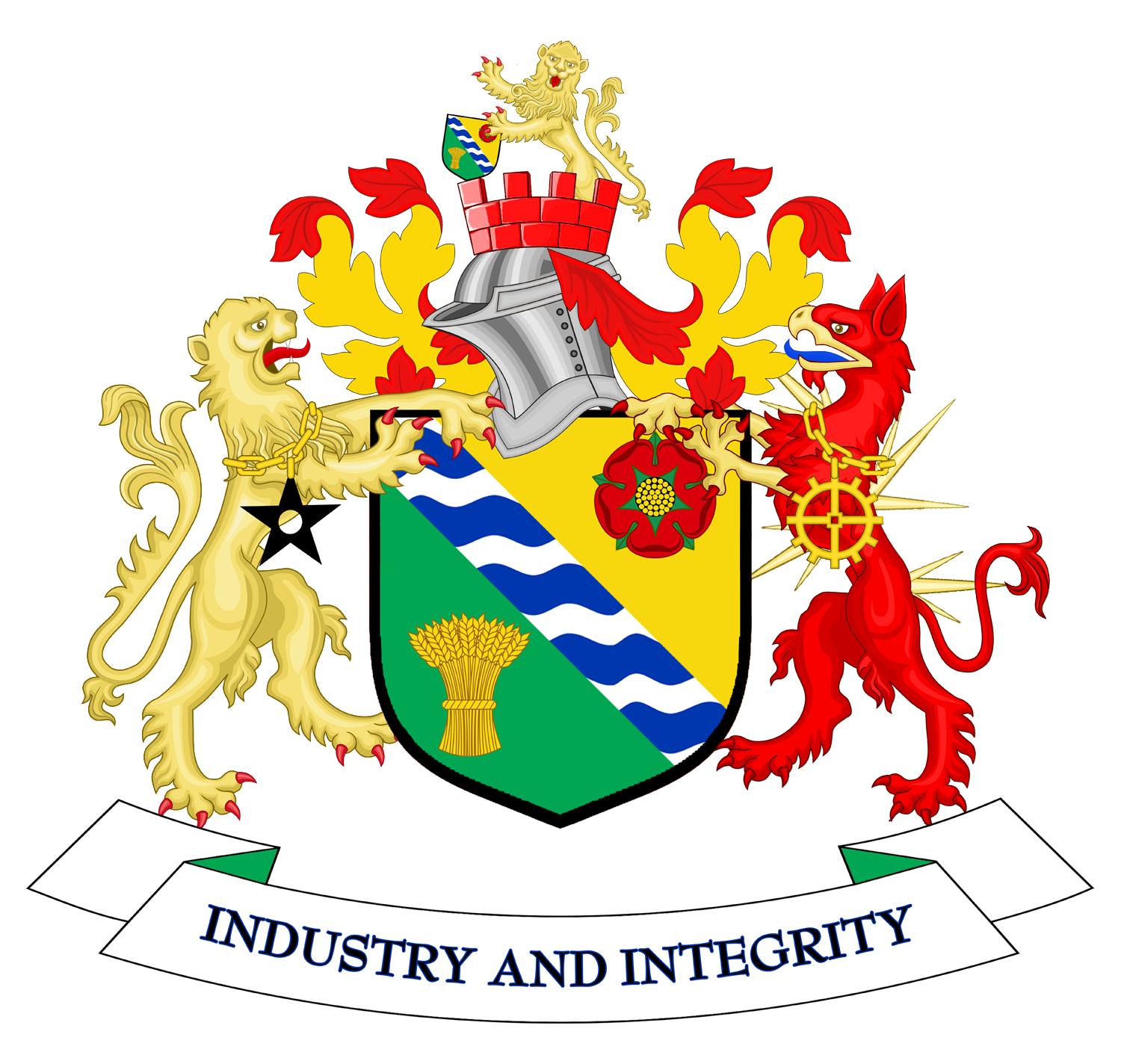 The Coat of arms of Tameside Metropolitan Borough Council, the local government authority for the Metropolitan Borough of Tameside, in Greater Manchester, England. The blazon is:ARMS: Per bend Or and Vert a Bend barry wavy Argent and Azure between in chief a Rose Gules barbed and seeded proper and in base a Garb Or. CREST: Out of a Mural Crown Gules a demi-lion guardant Or resting the sinister forapaw on an Escutcheon of the Arms, Mantled Gules doubled Or. SUPPORTERS: On the dexter a Lion Or gorged with a Chain pendent therefrom a Mullet pierced Sable and on the sinister a male Griffln Gules armed beaked irradiated and gorged with a Chain pendent therefrom a Cogwheel Or.